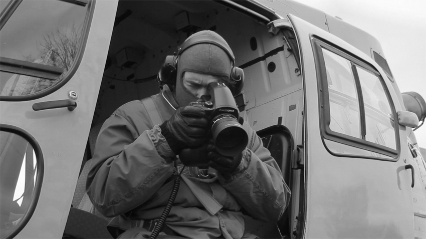 Andreas Magdanz, Stammheim, MZH, 2011